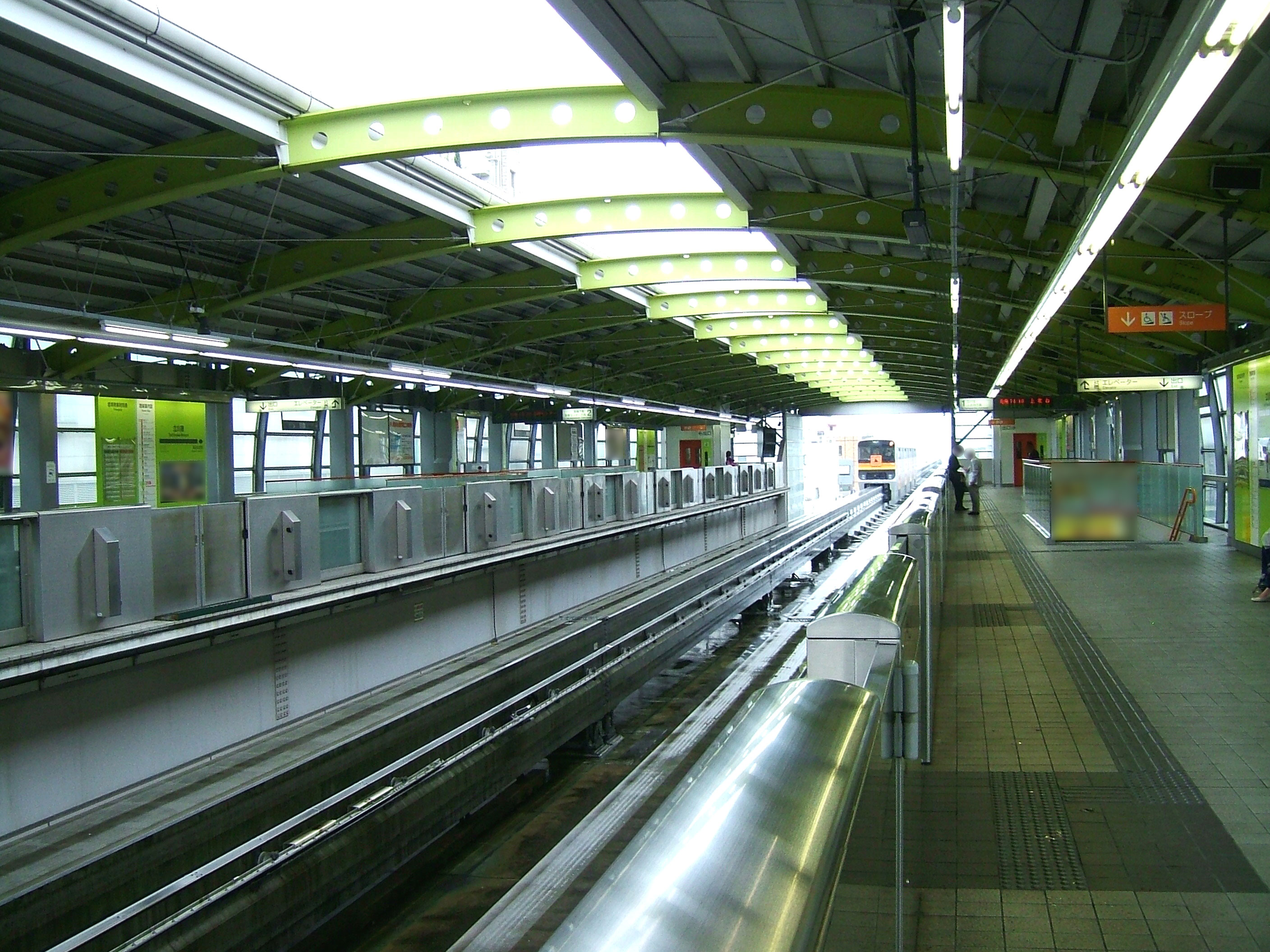 The platforms at Tachikawa-Minami Station on the Tama Toshi Monorail in Tachikawa city, Tokyo, Japan